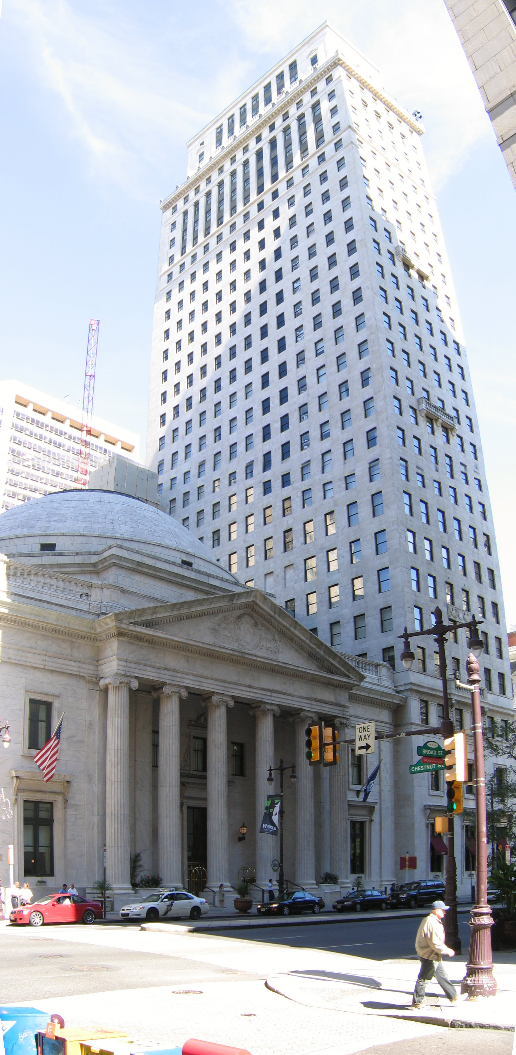 The Girard Trust Building on the corner of Broad and Chestnut Streets in Philadelphia. The architects were Frank Furness, his partner Allen Evans, and McKim, Mead and White. The building formerly served as the headquarters of Girard Bank and is now a Ritz-Carlton hotel.